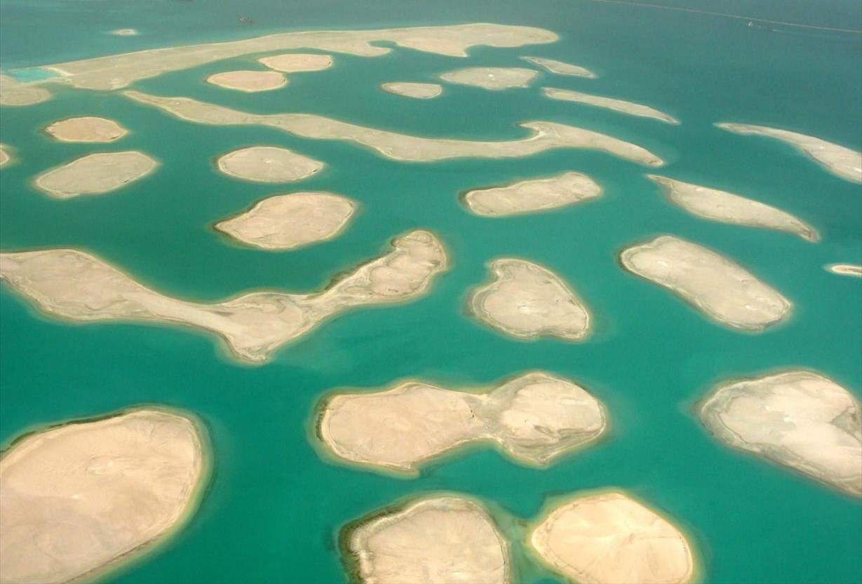 This is an aerial view of The World, located in the Arabian Gulf off the coast of Dubai, United Arab Emirates, on 8 May 2008. This photo was taken from a helicopter ride courtesy of Nakheel.